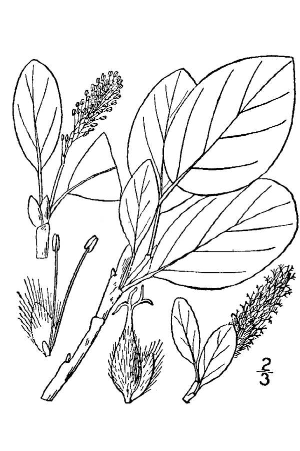 Salix arctophila Cockerell ex A. Heller - northern willow